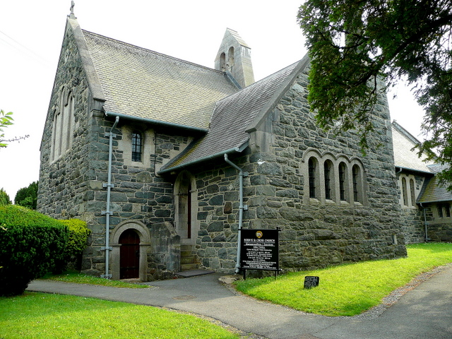 St . Cross church, Tal-y-bont An impressive building to the west of Tal-y-bont.